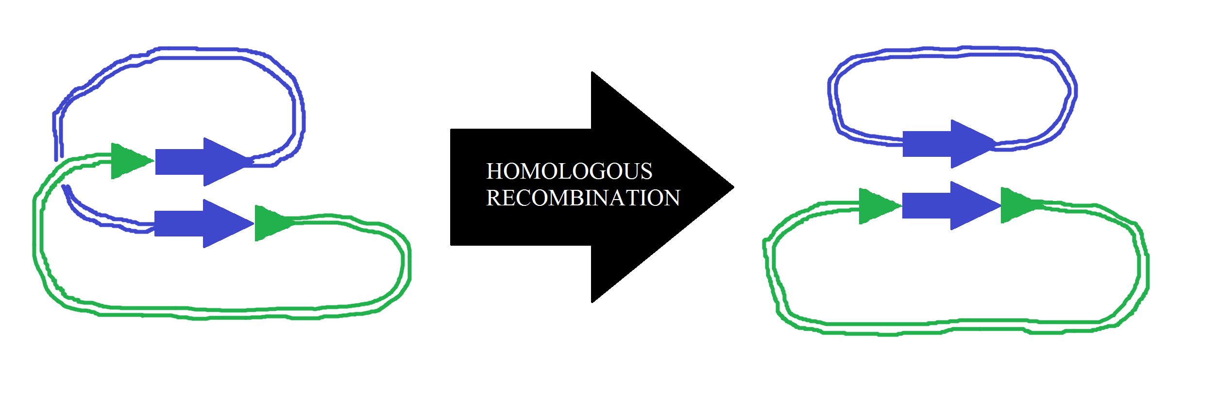 Diagram showing homologous recombination of a cointegrate plasmid containing the Tn3 transposon. This is an important part of the replication of this transposon, which itself has a role of the spread of antibiotic resistance genes.